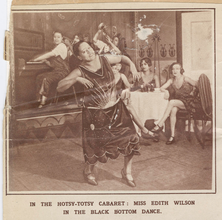 Newspaper clipping with caption "In the hotsy-totsy cabaret: Miss Edith Wilson in the Black Bottom Dance"